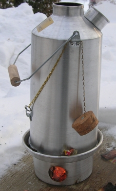 Storm kettle in operation (this one is a Kelly Kettle)